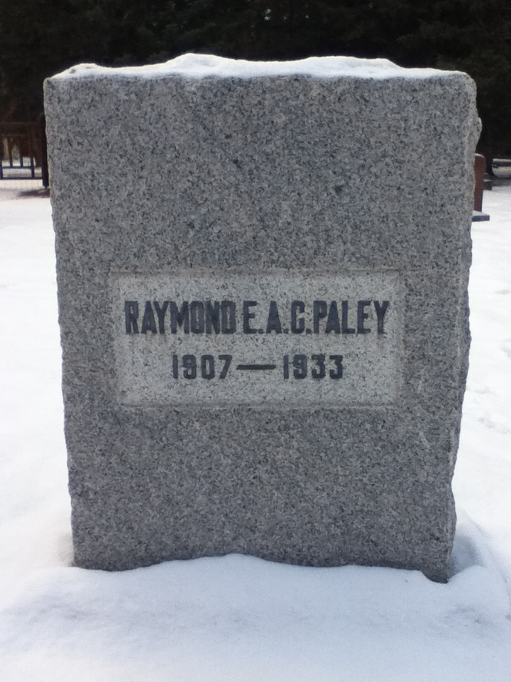 Photograph of the gravestone of the mathematician Raymond E. A. C. Paley, in The Old Banff Cemetary.